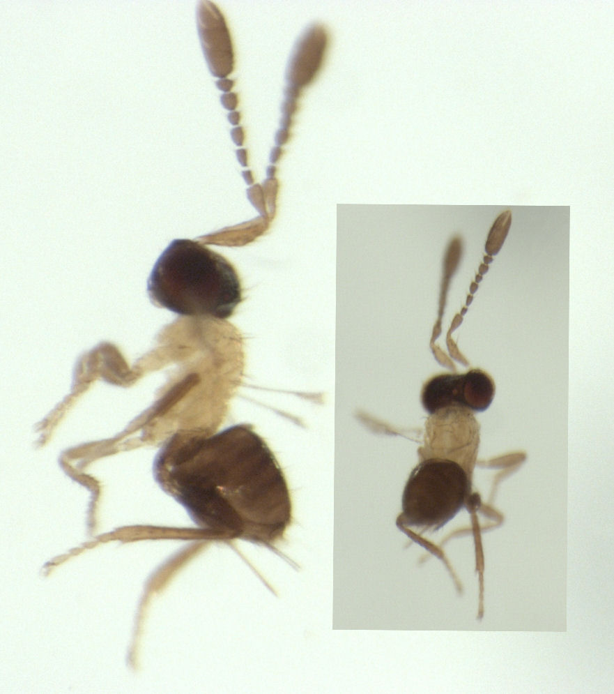 adult female ?Paracmotemnus sp.